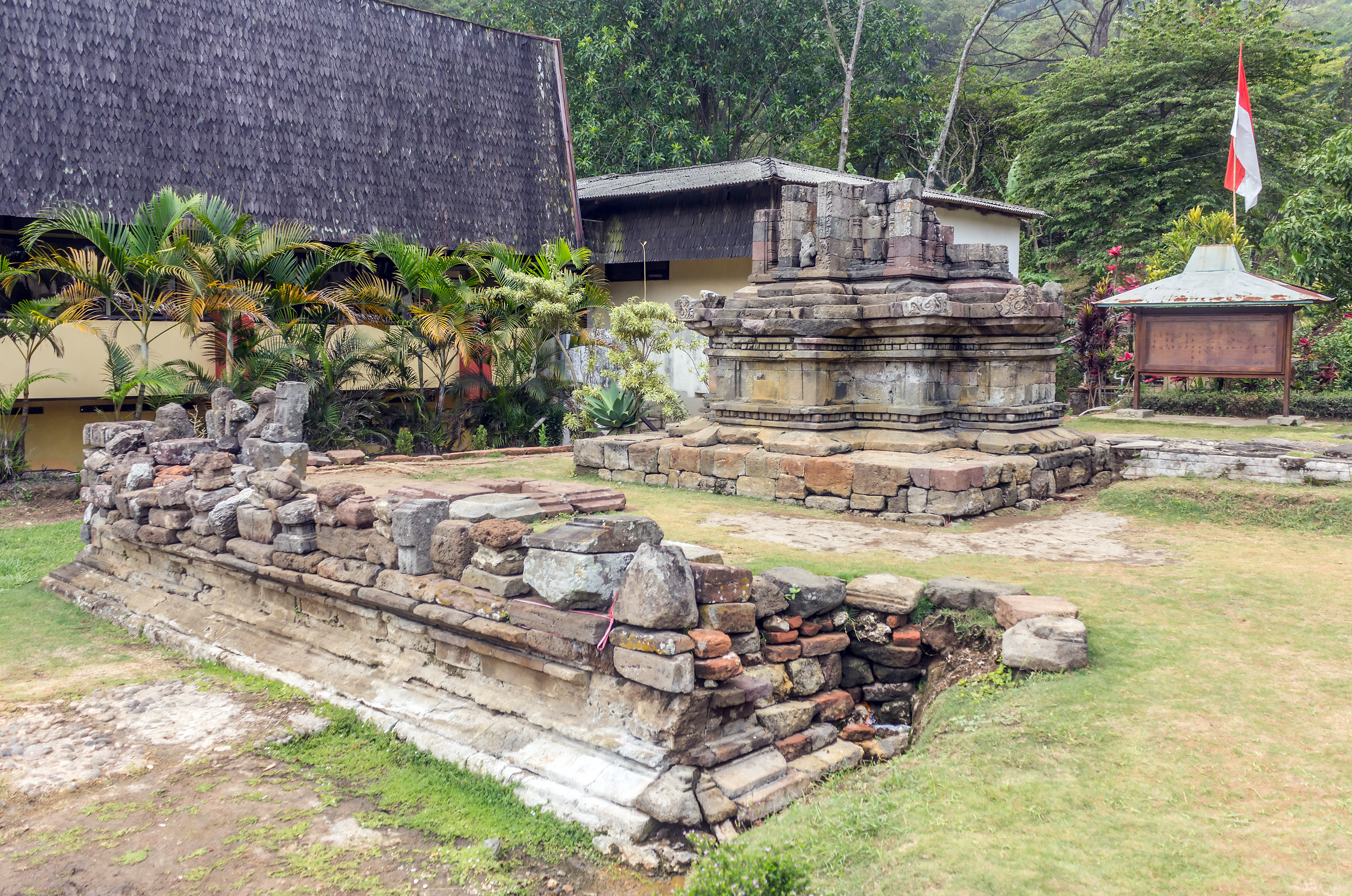 Candi Sanggariti, Batu, Malang, 2017-10-01